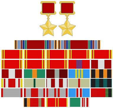 Ribbon bar of Marshal Vasilevsky (reconstructed)